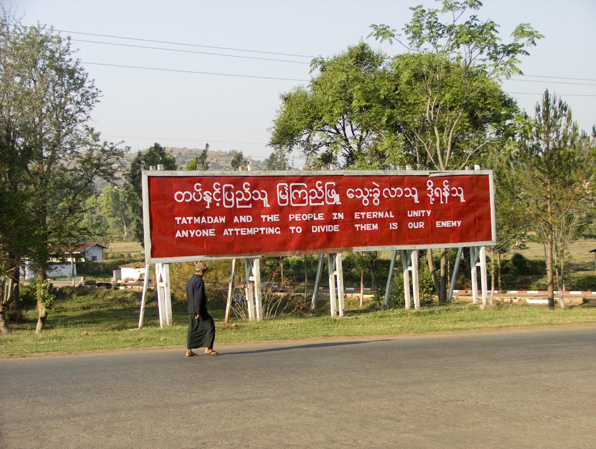 Tatmadaw [Armed Forces] and the people in eternal unity. Anyone attempting to divide them is our enemy. Propaganda